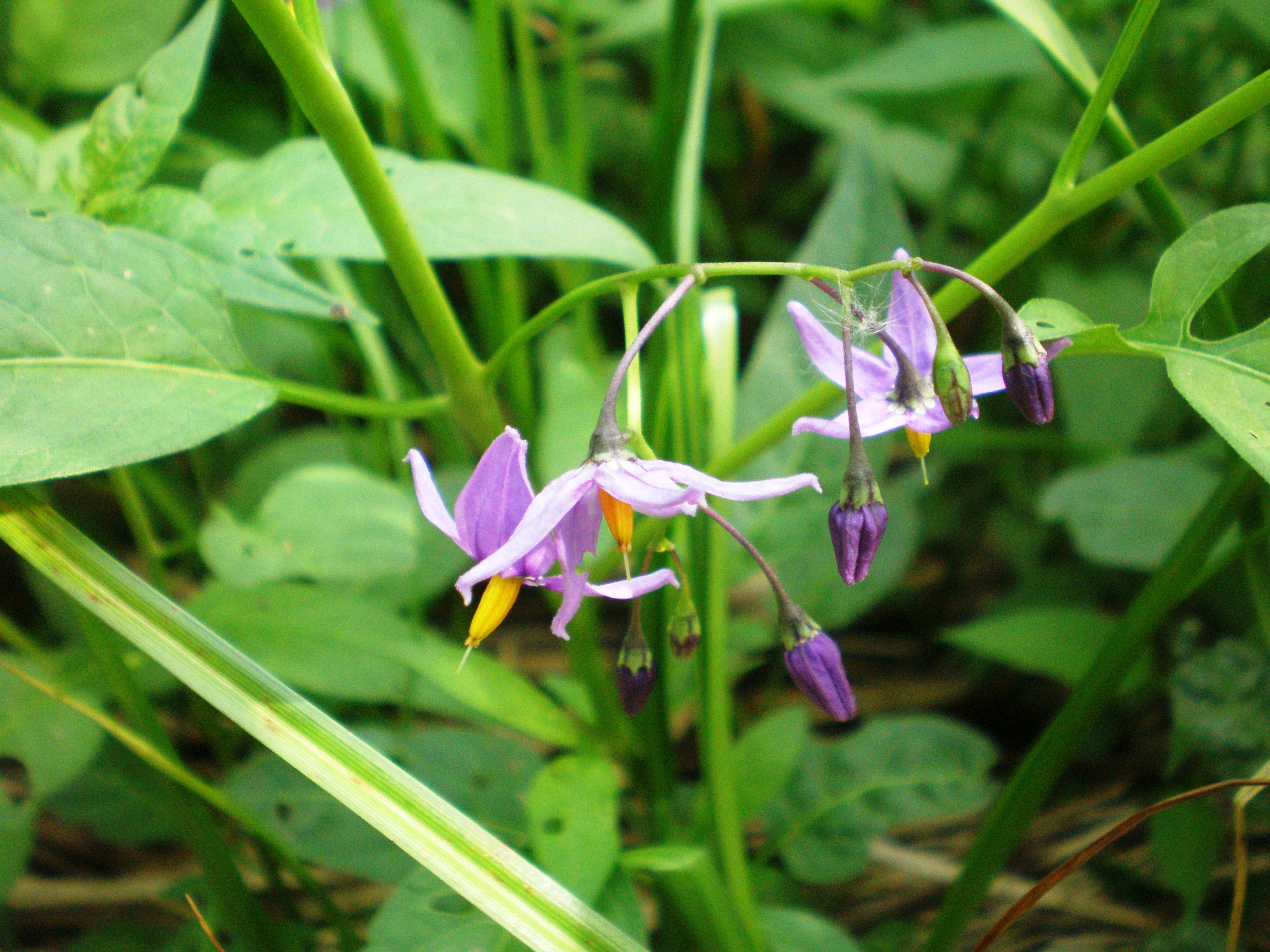 Photo of Solanum dulcamara flowers.